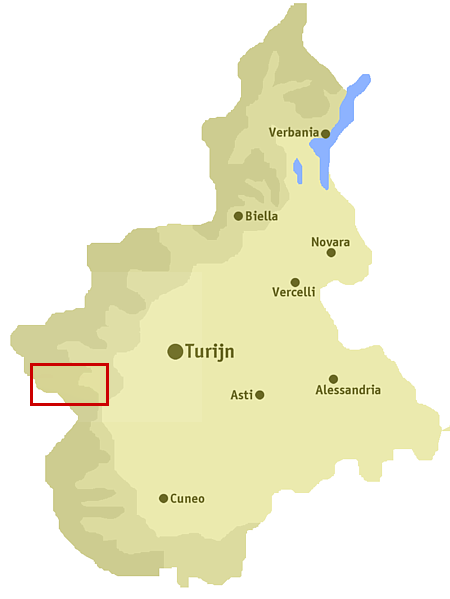 Position of the valley Val Chisone